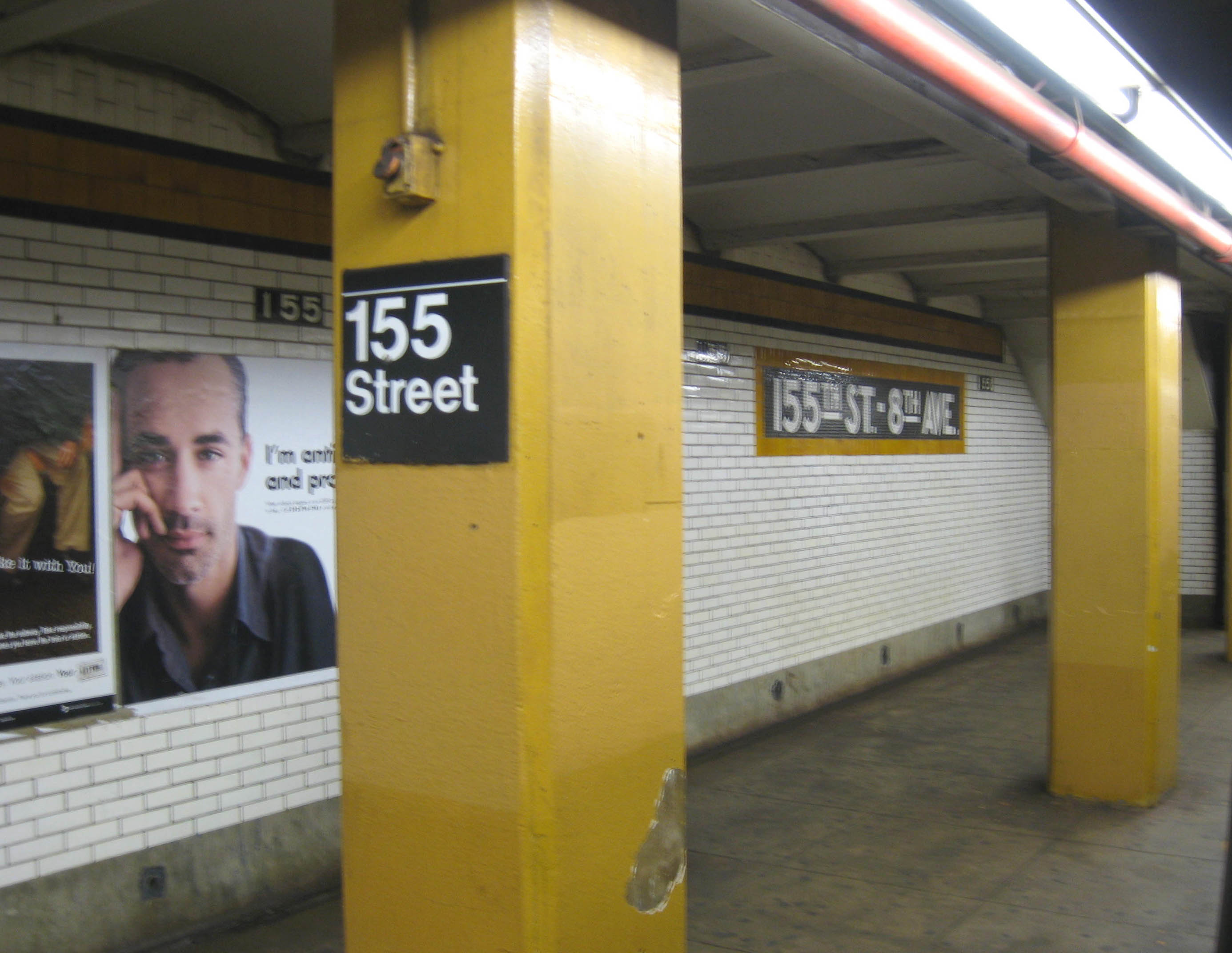 Looking southeast along uptown local platform of en:155th Street (IND Concourse Line). For surface see File:155 st IND jeh.JPG